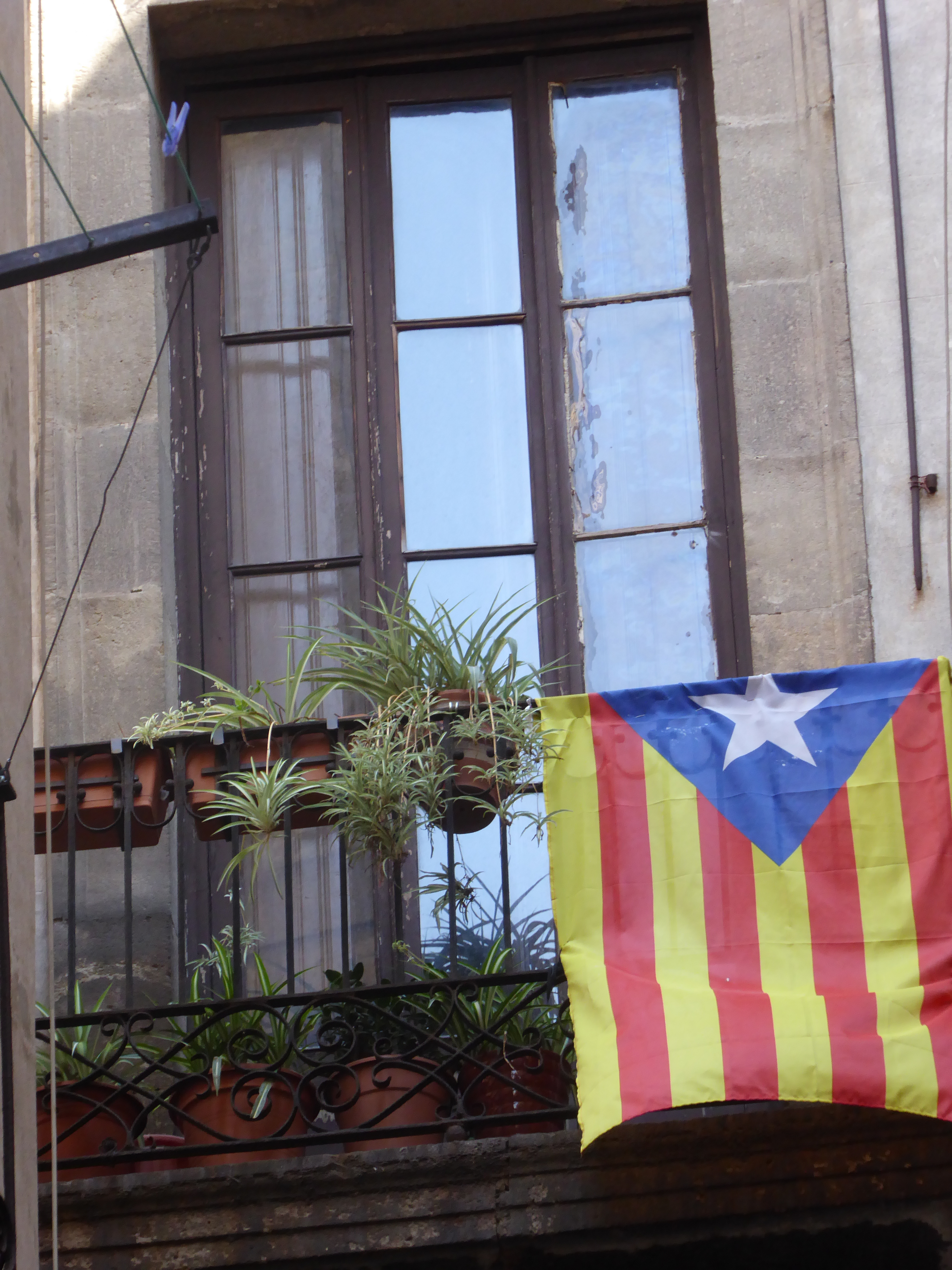 Carrer del Vidre, El Gòtic, Ciutat Vella, Barcelona, Catalonia, July 2014